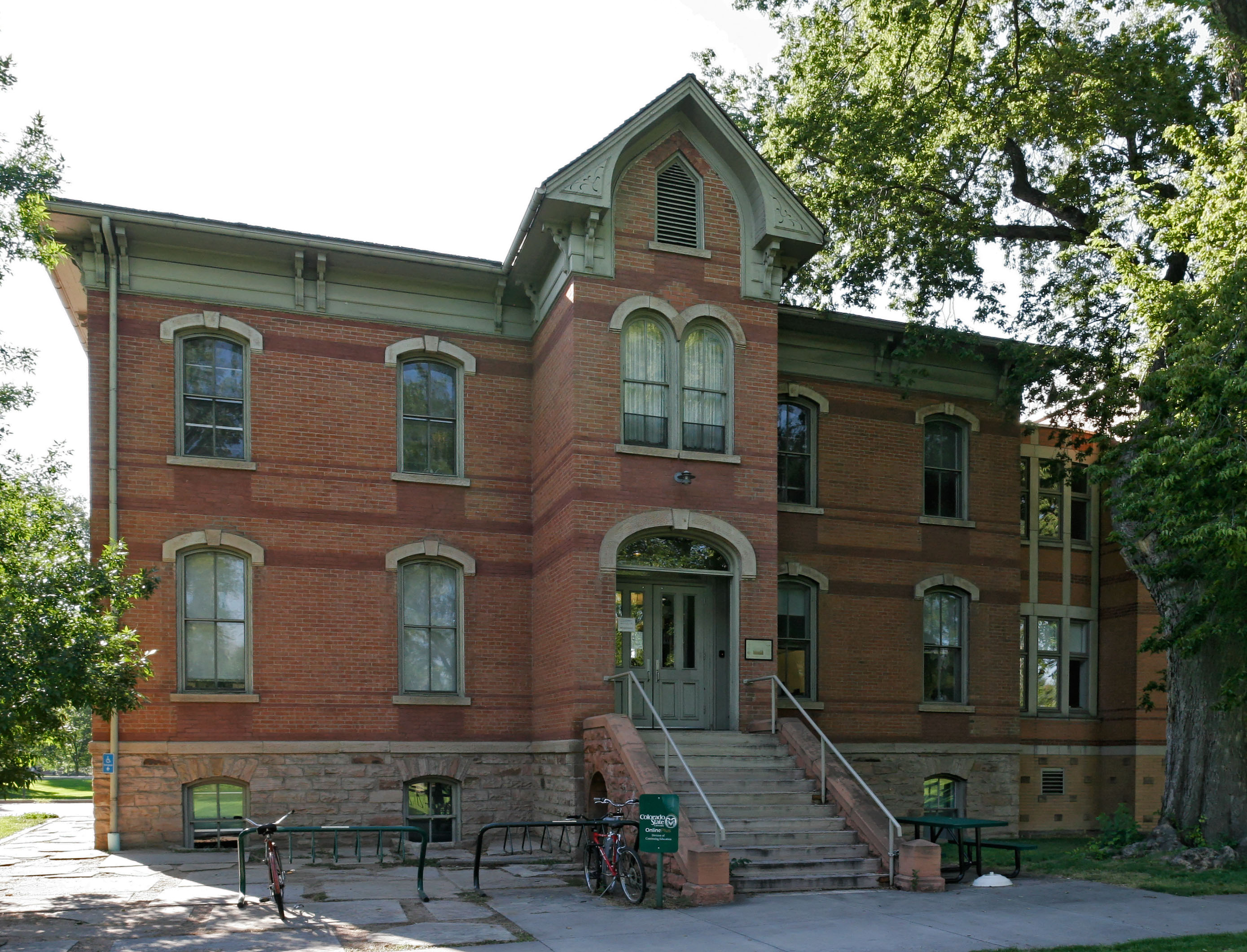 East elevation of the historic portion of Spruce Hall with the newer addition partially visible, extending out of frame to the right.